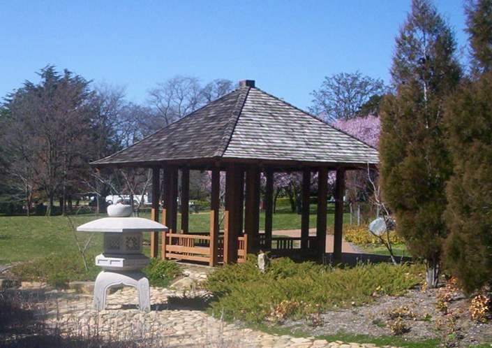 Category:Images of Canberra Lennox Gardens in Canberra, Australia. I took the photo Cfitzart 15:08, 26 August 2005 (UTC)